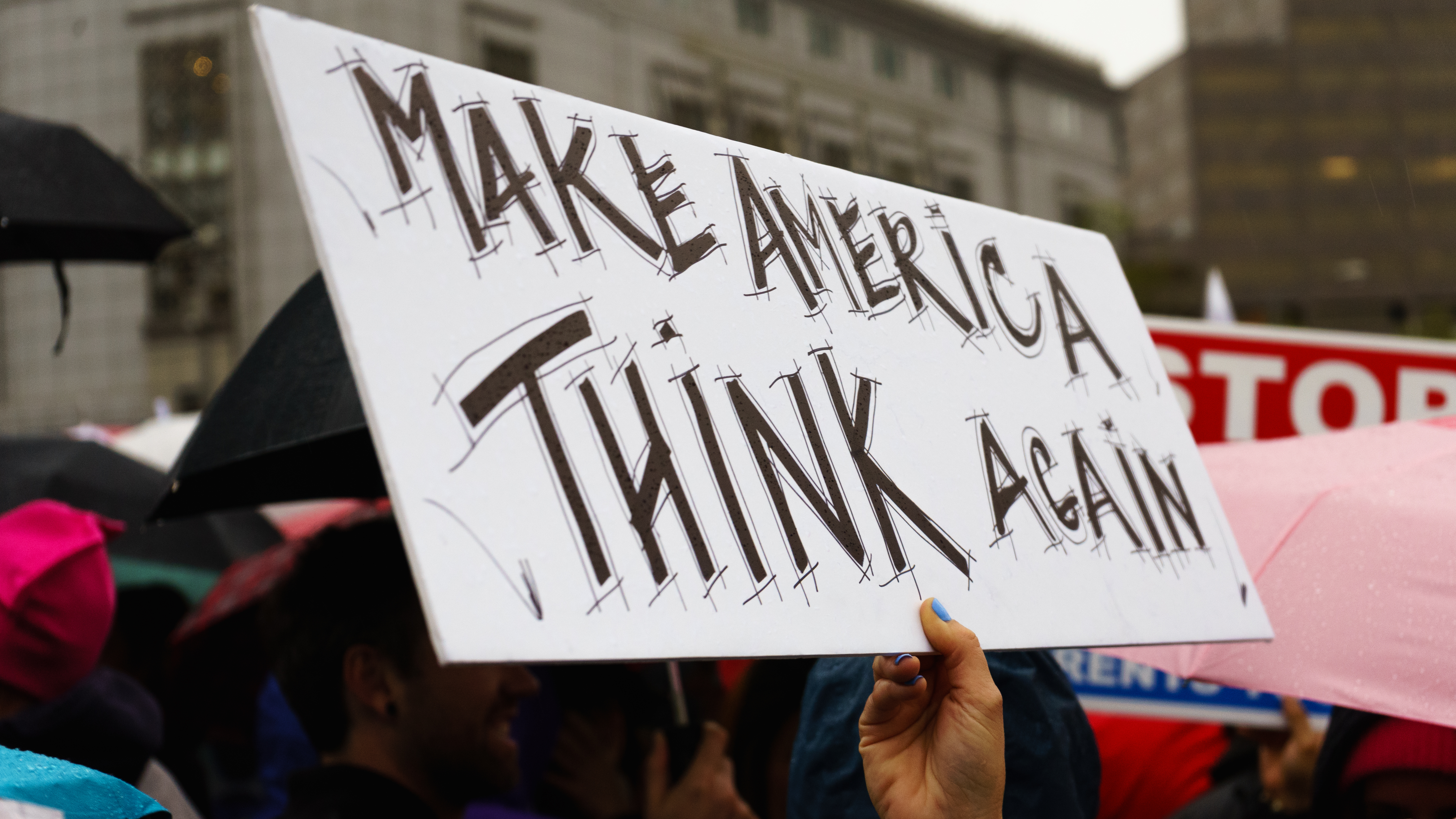 January 21, 2017